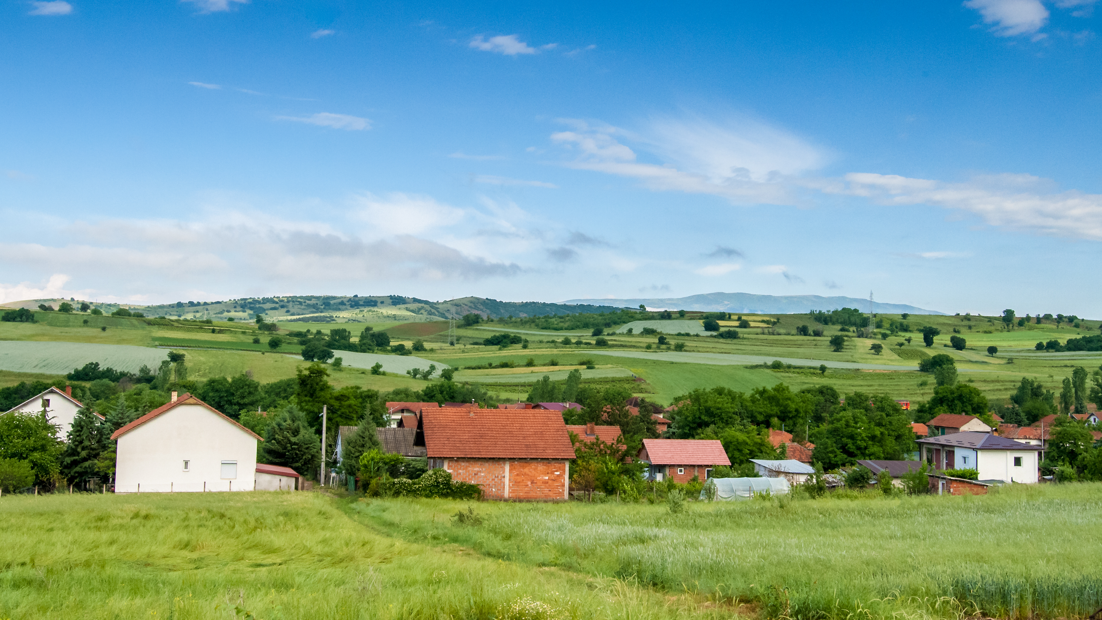 Panoramic photo near the oil refinery OKTA with the view of the village Tekija